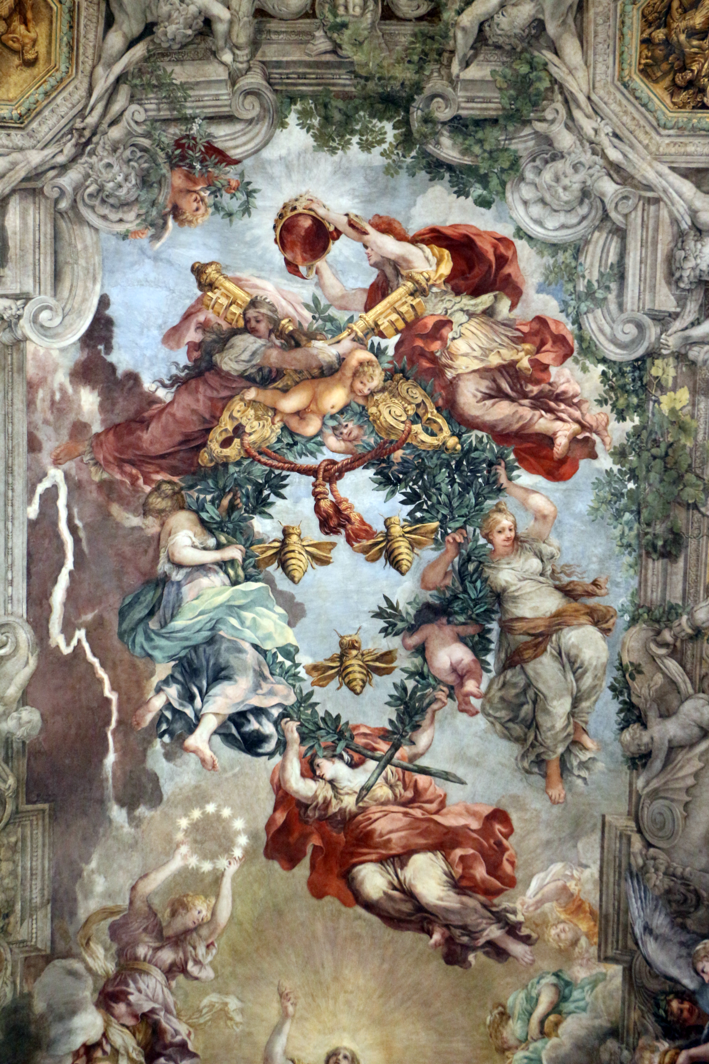 Triumph of the Divine Providence by Pietro da Cortona